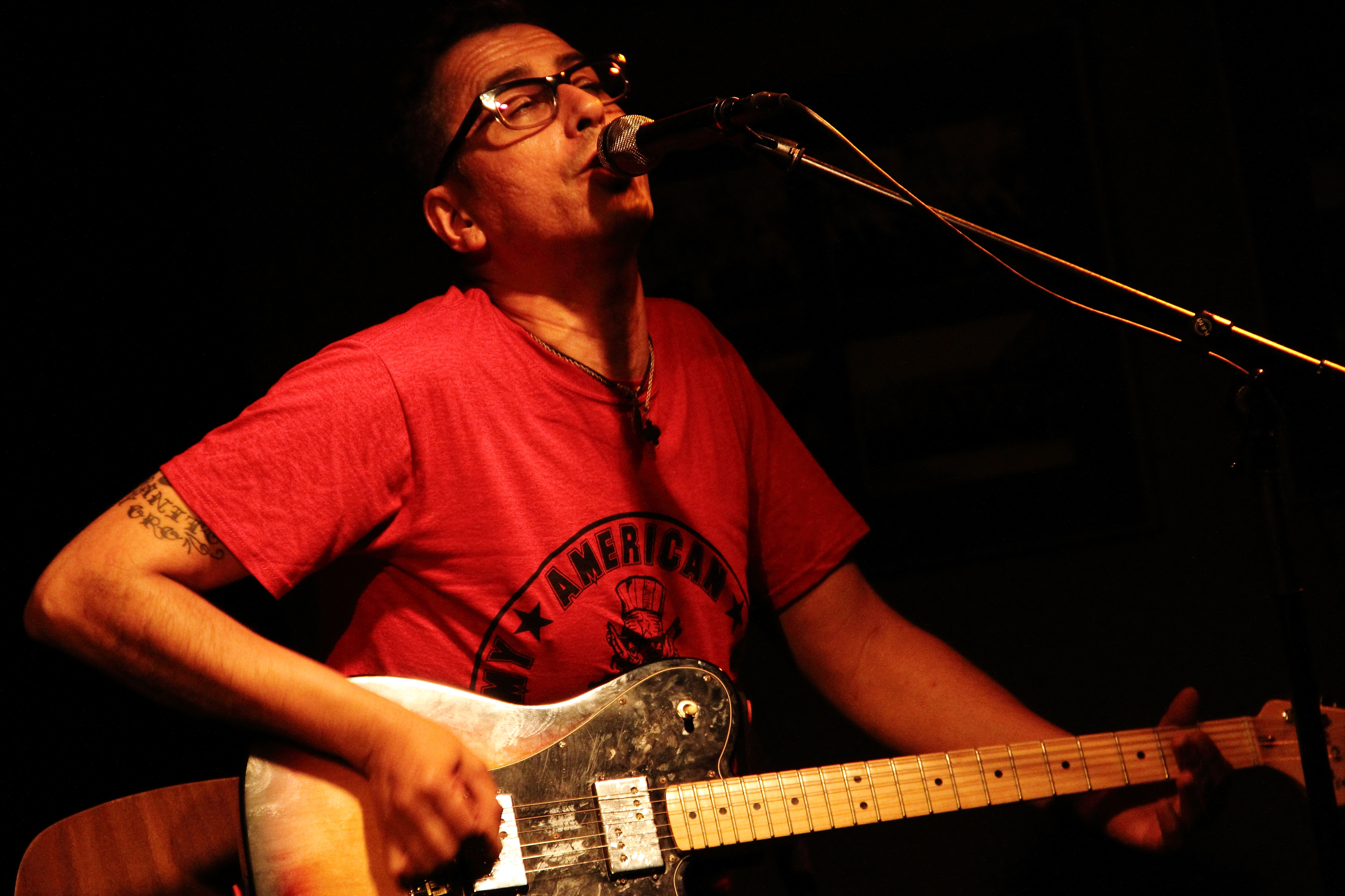 Joel RL Phelbs & The Downer Trio at Club W71, Weikersheim.